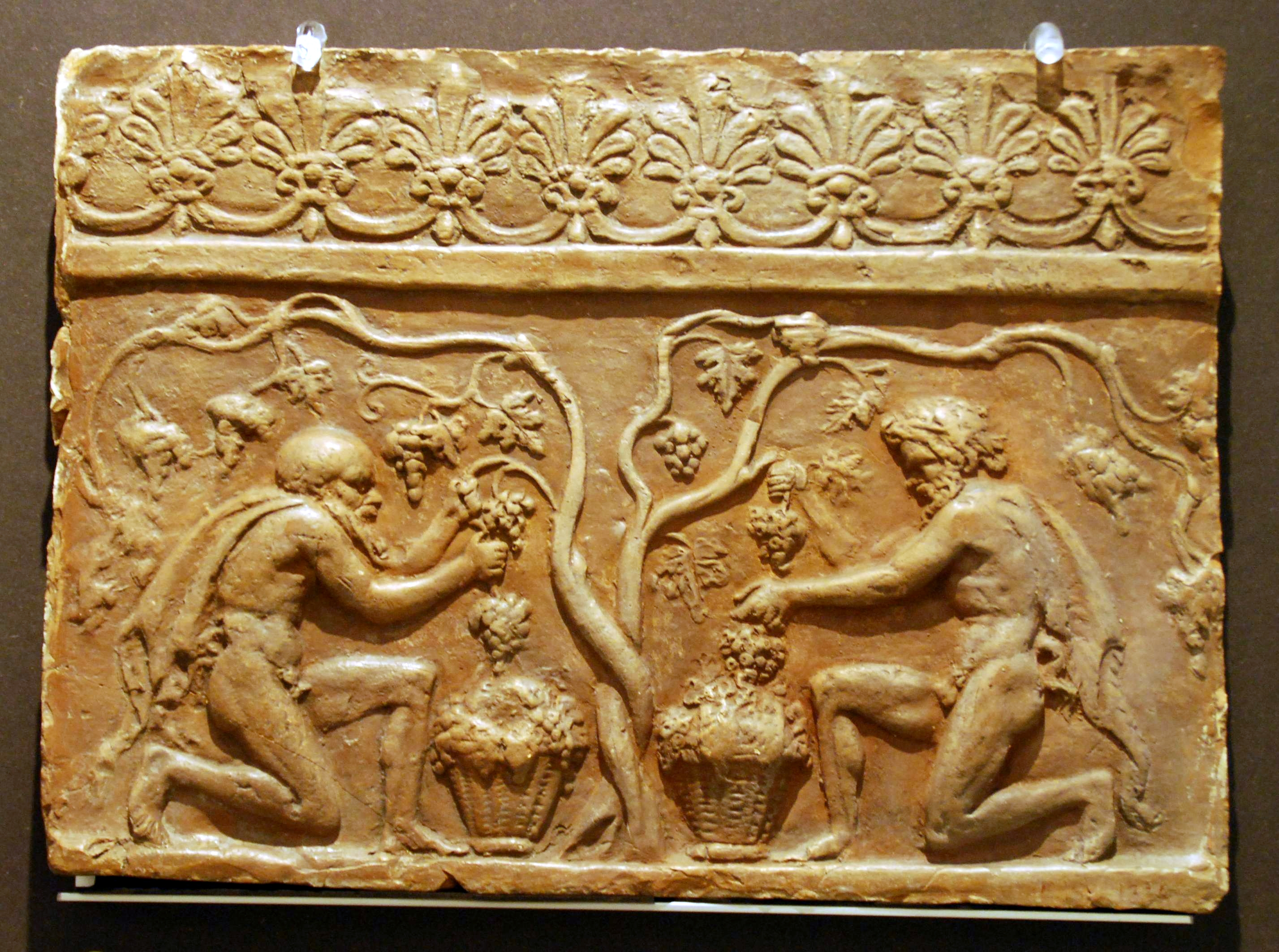 Campana plaque in the Museum August Kestner in Hannover (Inv.-Nr. 1338): Satyrs; Clay